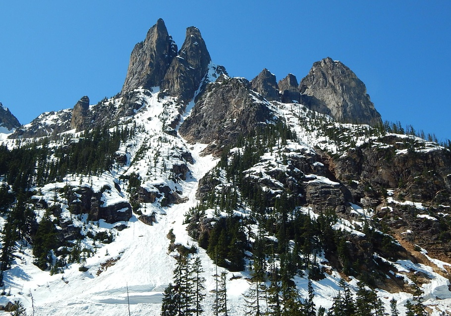 Early Winters Spires and Liberty Bell Mountain seen from Highway 20 in the North Cascades, Washington state.